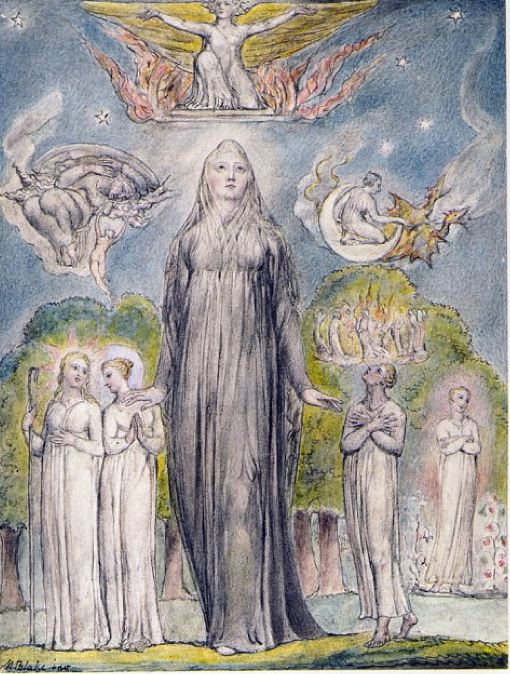 Melancholy, Illustration to Milton's “Il Penseroso” c. 1816-20 (The Pierpont Morgan Library)